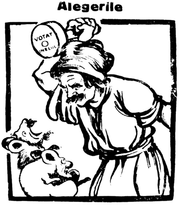 Cartoon published in the Romanian political newspaper Aurora, mouthpiece of the Peasants' Party, during the 1926 parliamentary election.An attack on the People's' Party cabinet and its shadow partner, the National Liberal Party: the two human-faced rats are Premier Alexandru Averescu, of the People's' Party, and Ion I. C. Brătianu, of the National Liberals. Looming over them in traditional costume is the peasant voter, his ballot stamp marked VOTAT º INELUL ("Voted for º The Ring", i. e. the Peasants' Party logo).The title reads: Pecetia alegătorului, moartea şobolanilor politici de tot felul ("The elector's seal -- death to all sorts of political rats").